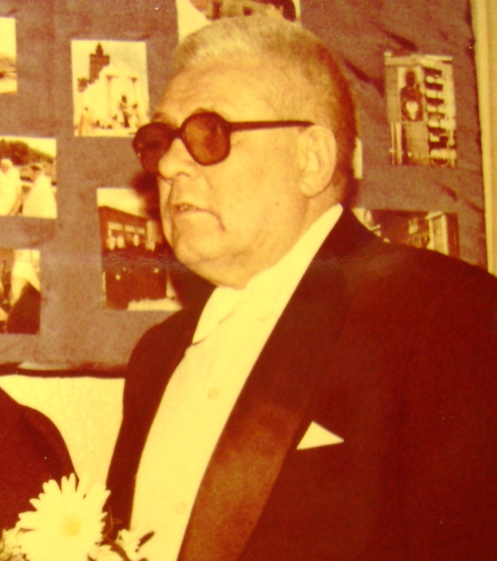 Adam Giedrys during his wedding anniversary in Szczecinek